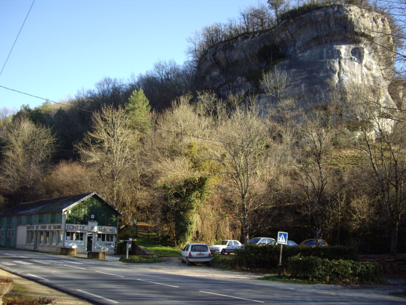 General vue of Font-de-Gaume visitor center.